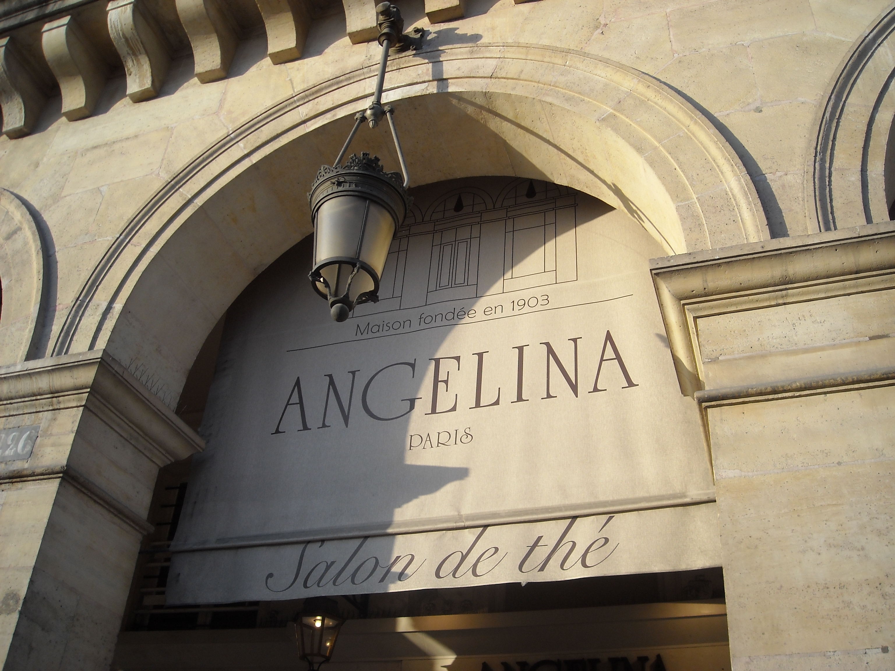 Entrance of Angelina (Salon de Thé) Rue de Rivoli, Paris